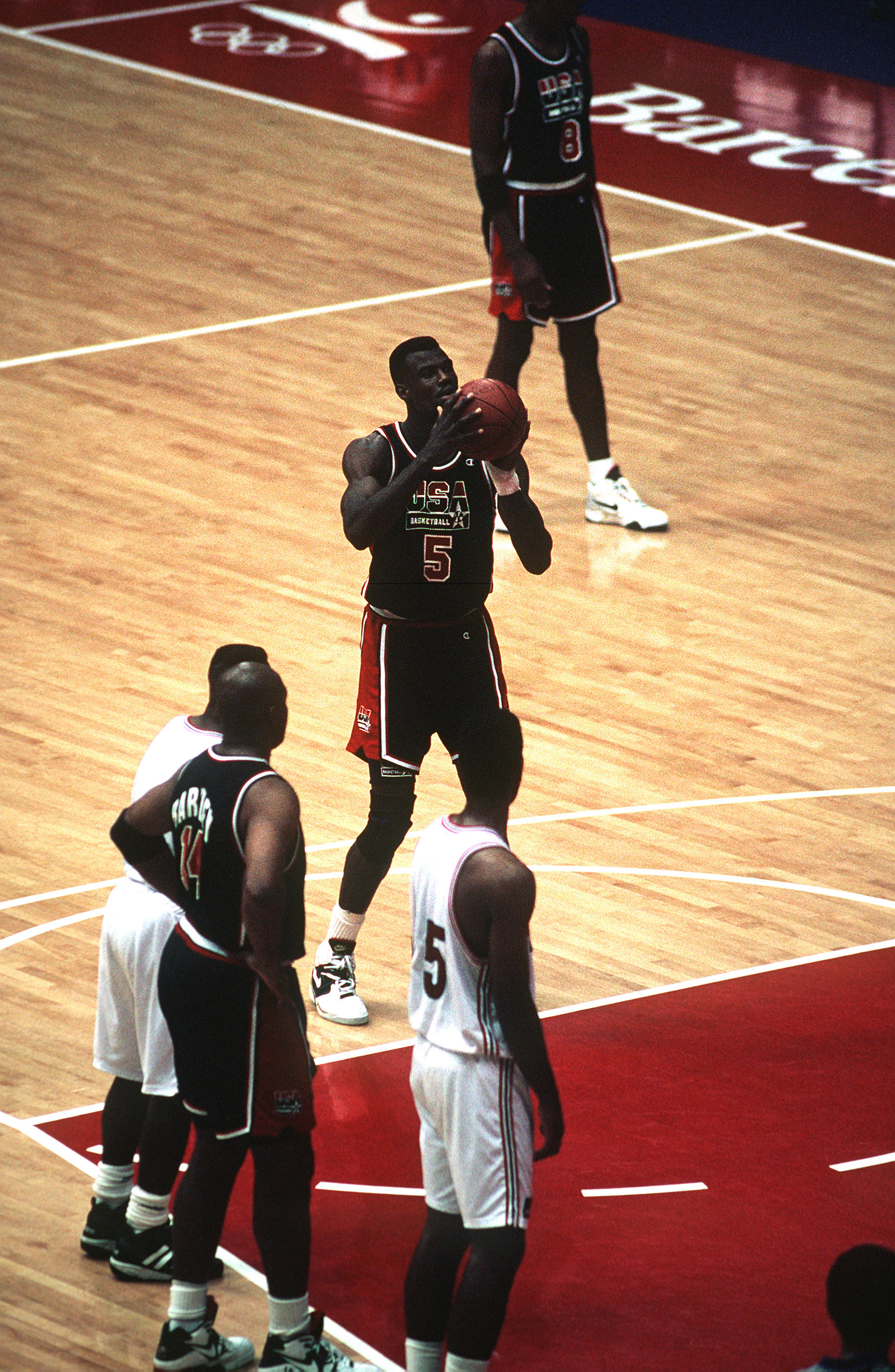 At the 25th Olympic games David Robinson, at that time US Navy Reserves, makes a free throw during the game between the "Dream Team" and Puerto Rico. Robinson scored 14 points and played 21.51 minutes of the game.